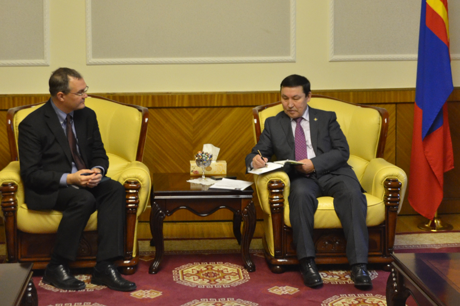 Жим Андерсон